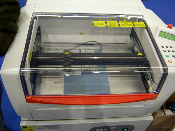 Laser engraving machine